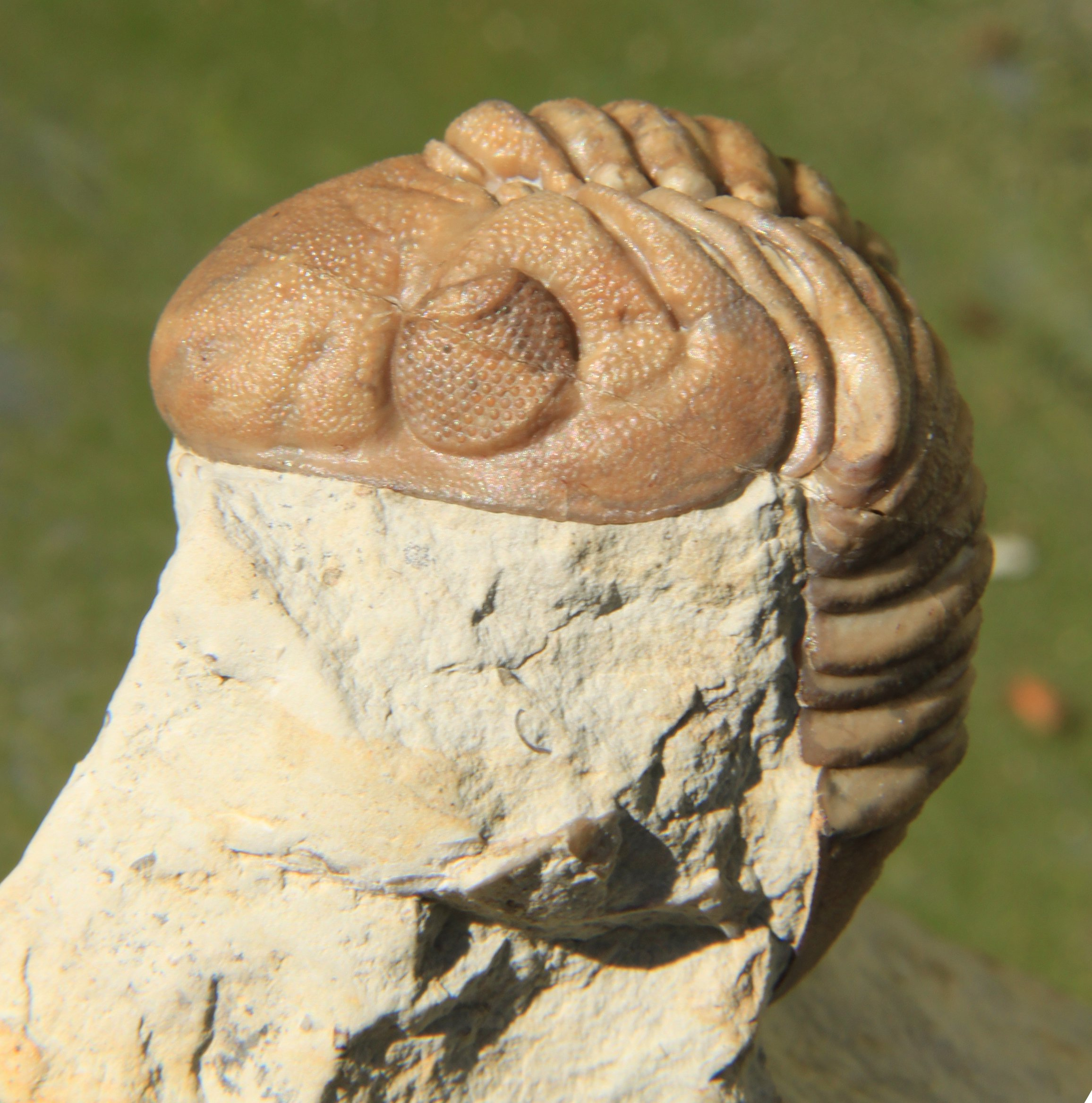 A Reedops deckeri trilobite, Order Phacopida, Family Phacopidae, 55 mm along the axis, side view of the cephalon, collected from the Harangan Formation, near Clarita, Coal County, Oklahoma, USA, from the Lower Devonian